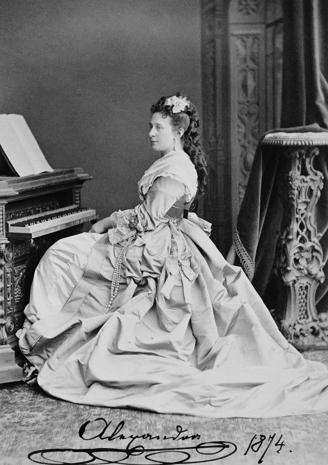 Grand Duchess Alexandra Iosifovna (1830-1911)